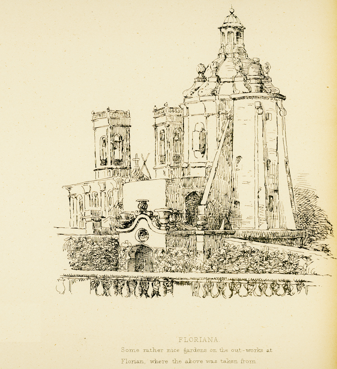 Floriana - O’hara (smith) - - 1859